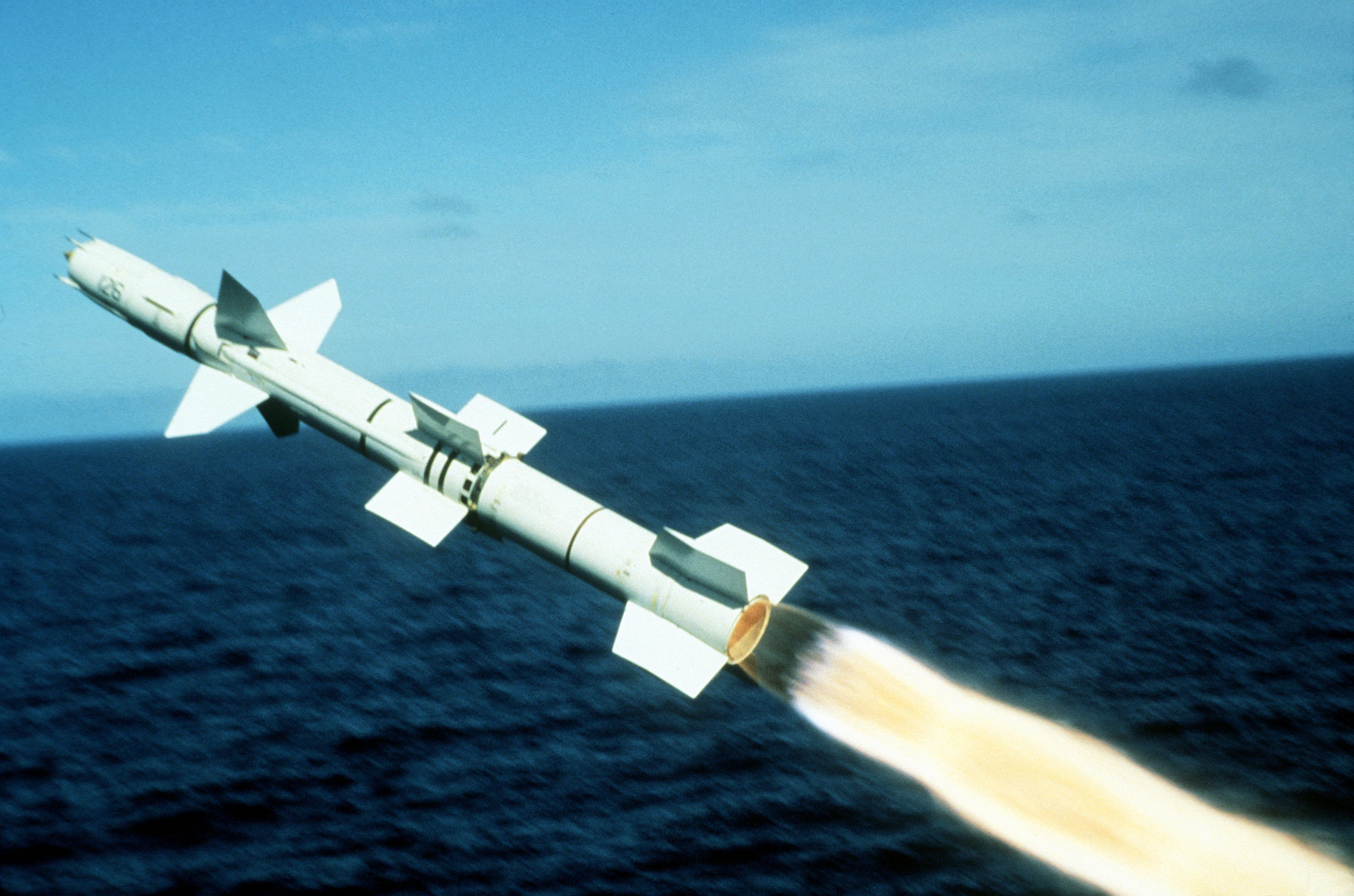 A view of a Talos surface-to-air guided missile, moments after being launched from the starboard side of the guided missile cruiser USS OKLAHOMA CITY (CG 5) at the Pacific Missile Test Range. This is the final firing of the Talos missile by the United States Navy. (Second view in a series of five)